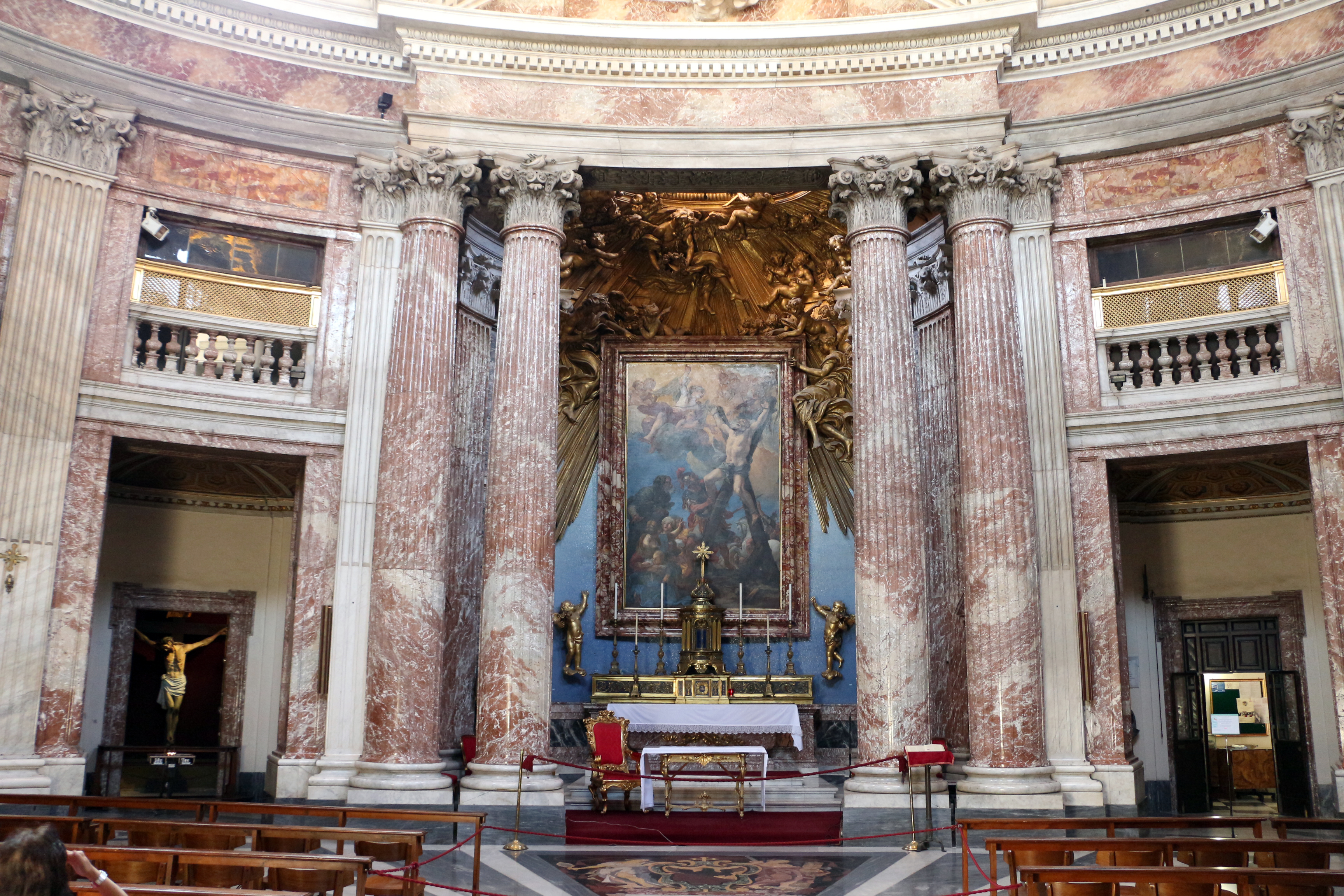 Sant'Andrea al Quirinale - Interior